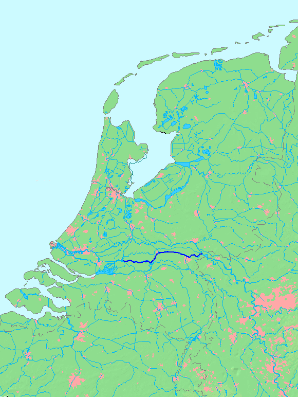 Location of a waterway (river/canal) in the Netherlands